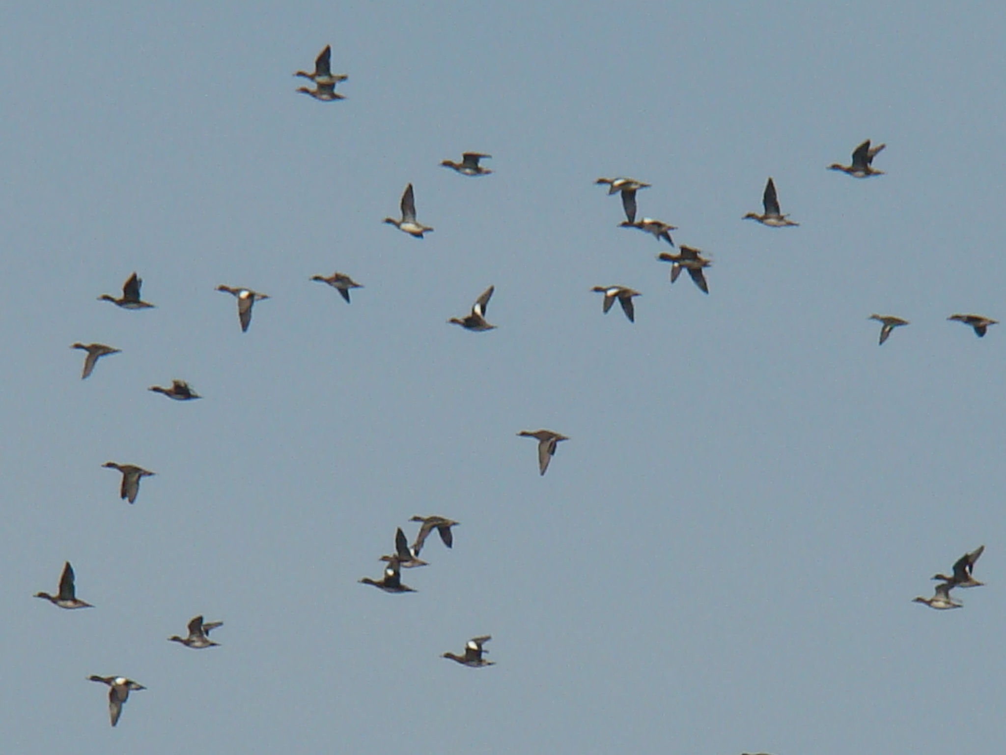 Photo of the Wigeons (Anas penelope) in Novaraistis nature reserve, Lithuania.